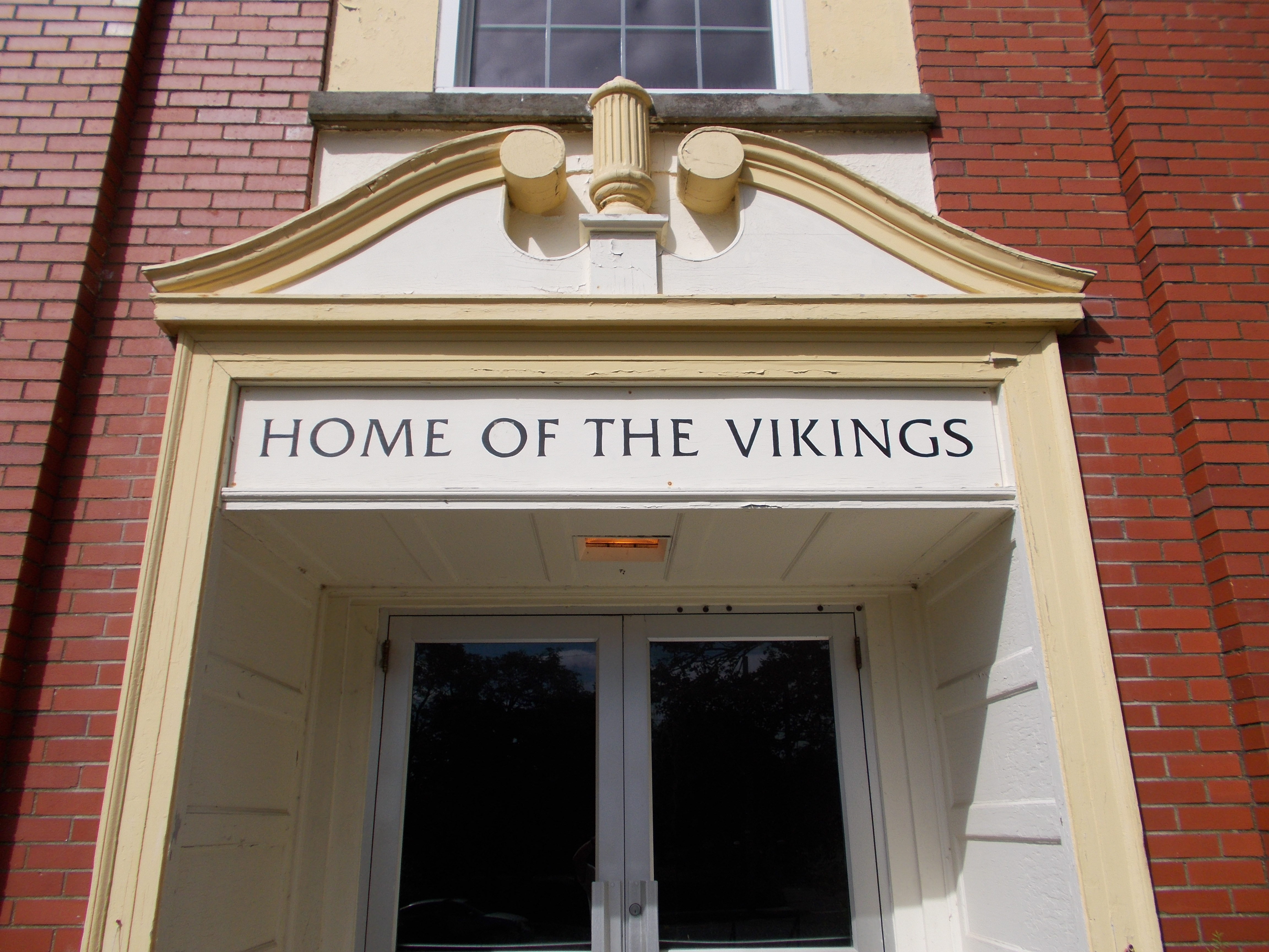 This is the inscription above the main entrance to the former Yarmouth Consolidated Memorial High School, Yarmouth, Nova Scotia